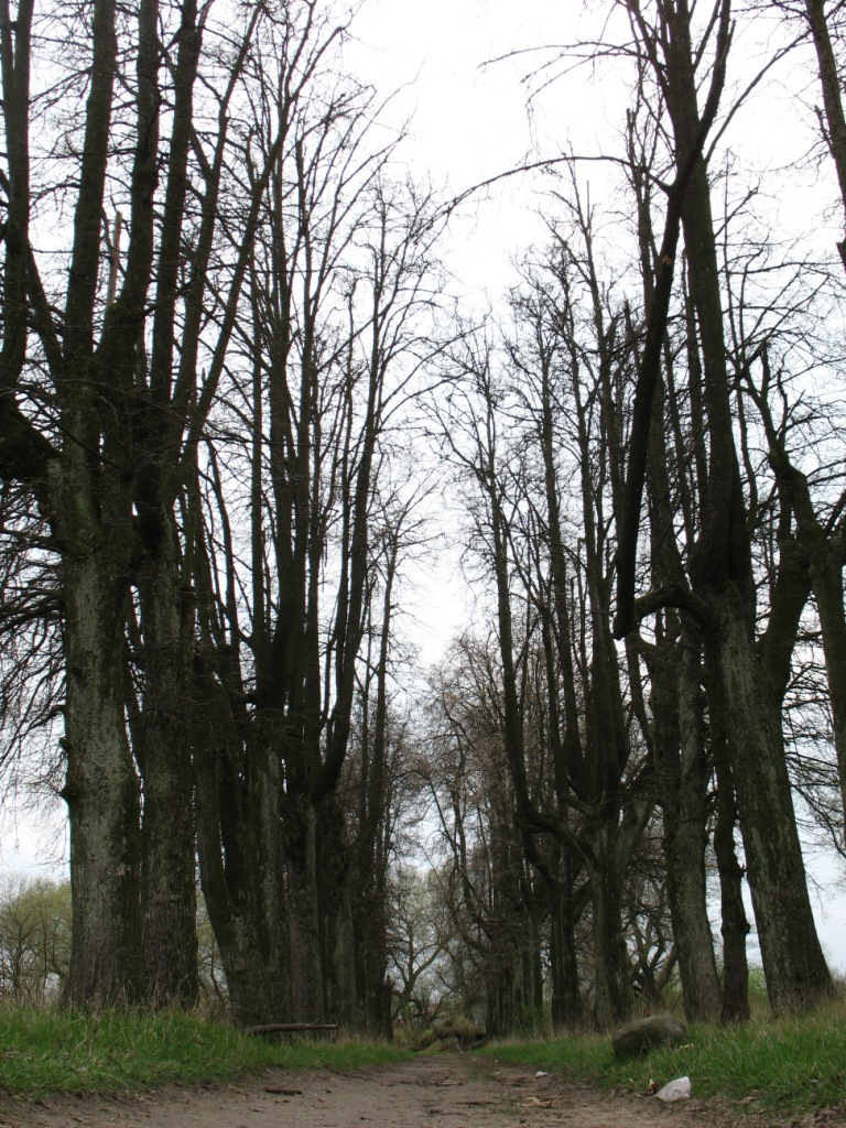 Manor of Maniuszka, Smilaviczy, Bielarus